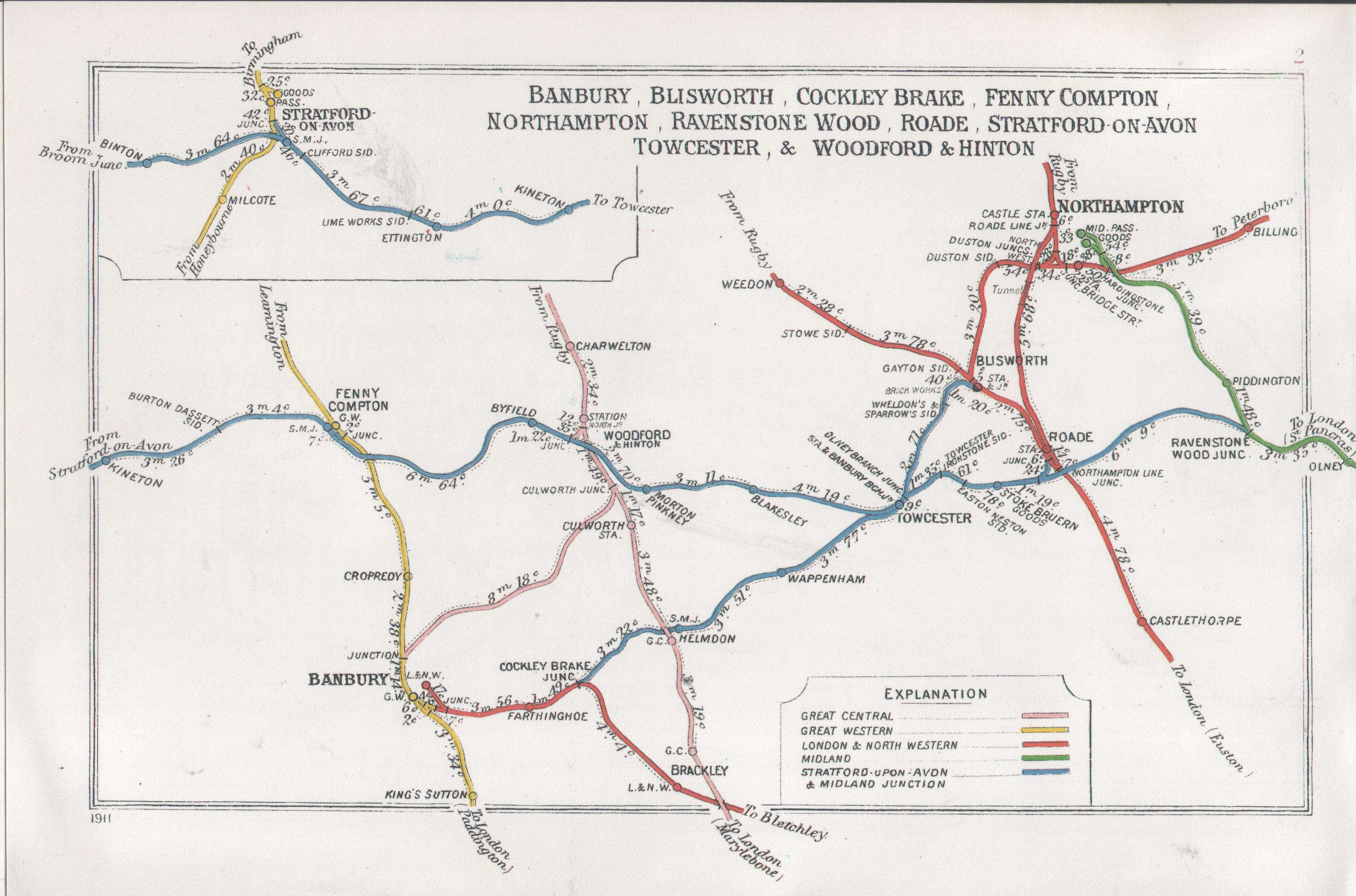 Pre Grouping railway junction around Banbury, Blisworth, Cockley Brake, Fenny Compton, Northampton, Ravenstone Wood,Roade, Stratford on Avon, Towcester, & Woodford & Hinton